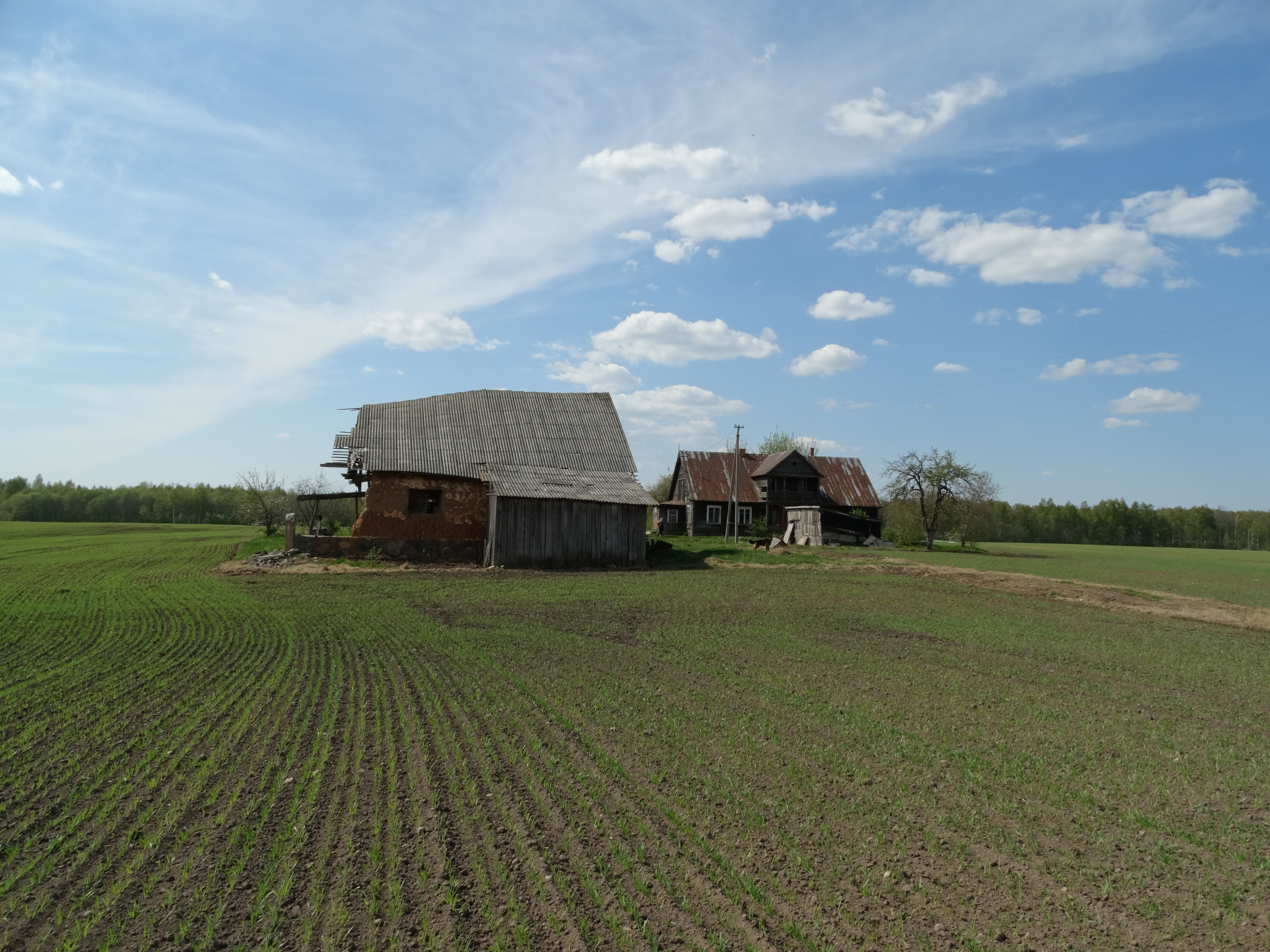 Paryžius, Radviliškis District, Lithuania